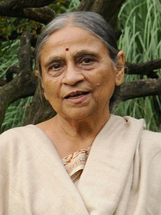 Ela Bhatt with her grandchildren Somnath Bhatt, 14, Maya Potter, 17, and Rameshwar Bhatt, 8. The Elders enlist their grandchildren's help to warn of the perils of climate change. Martti Ahtisaari, Ela Bhatt, Lakhdar Brahimi, Gro Brundtland, Jimmy Carter, Mary Robinson and Desmond Tutu invited their grandchildren to join them this week to remind the world of the catastrophic risk of climate change to future generations. The seven Elders and their thirteen grandchildren from Asia, Africa, Europe and America met in Istanbul - the group ranged in age from 3 to 85.